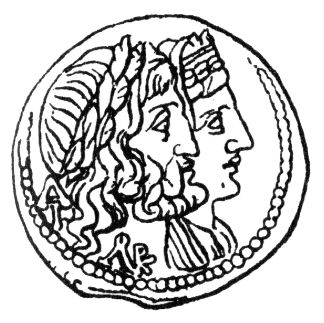 Coin showing Dione and Zeus.